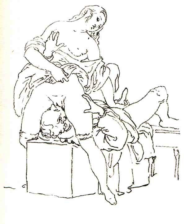 Drawing by Francesco Hayez.